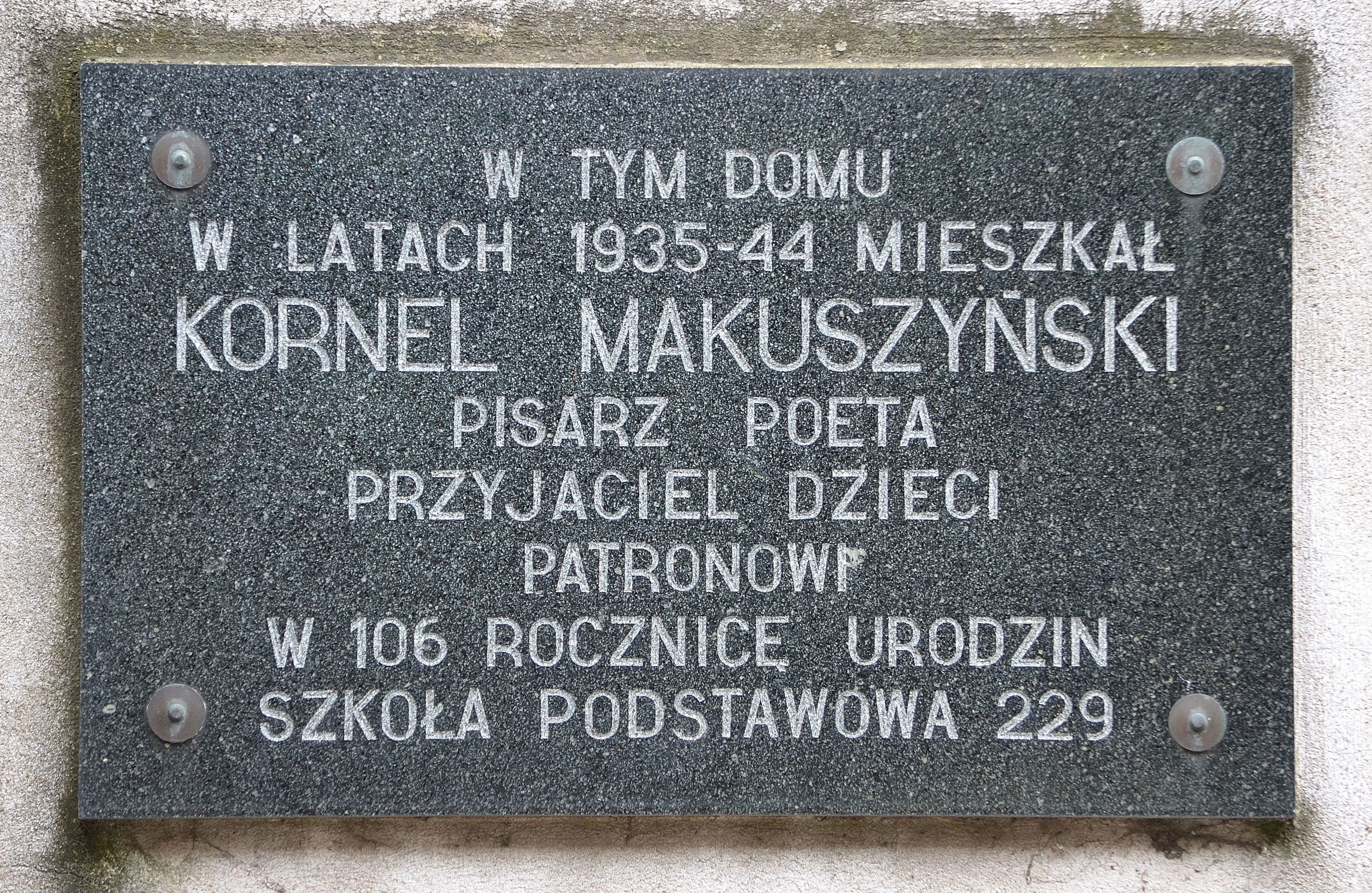 Plaque in memory of Kornel Makuszyński at 9A Grottgera Street in Warsaw